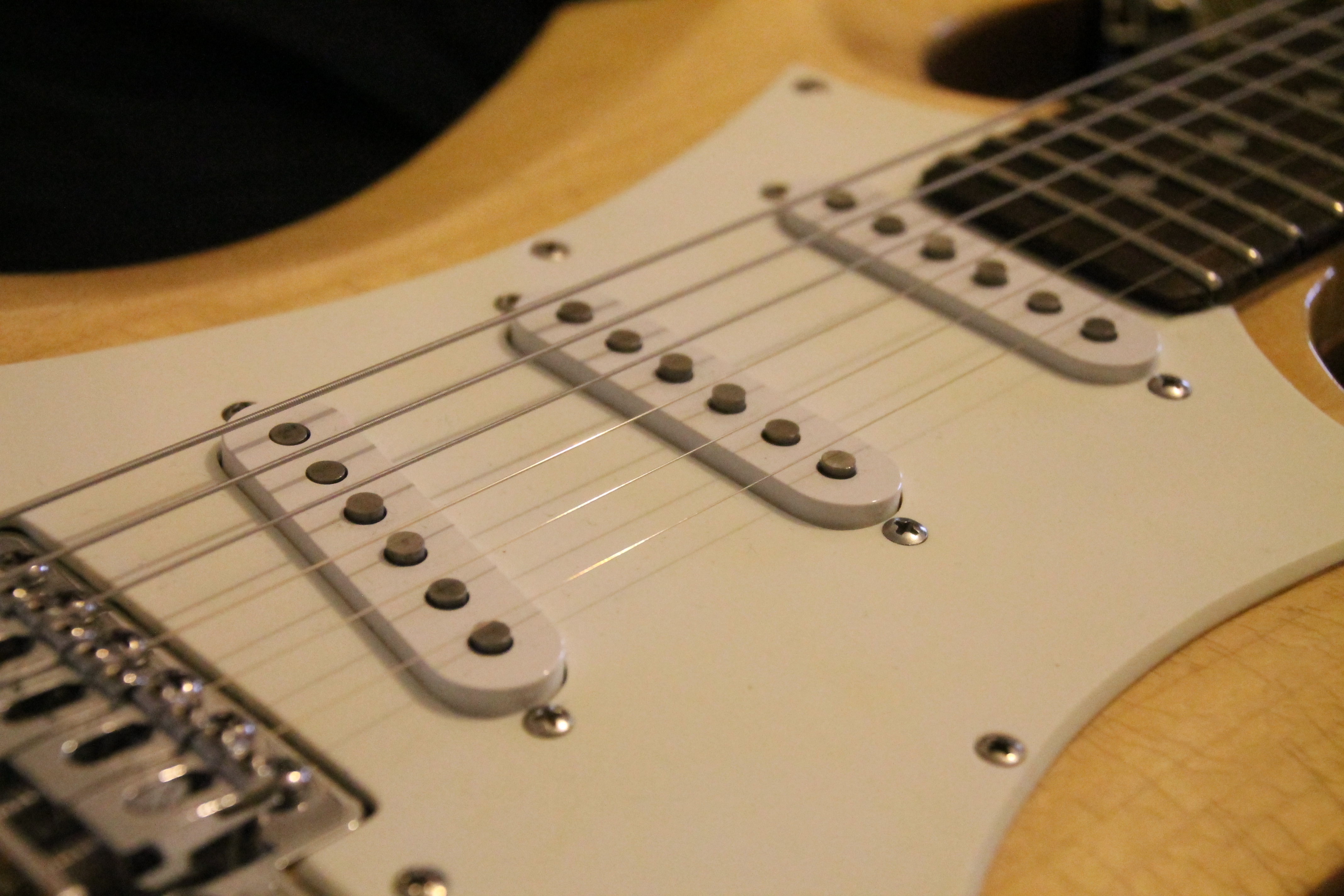 DiMarzio HS-3 -pickups on electric guitar.